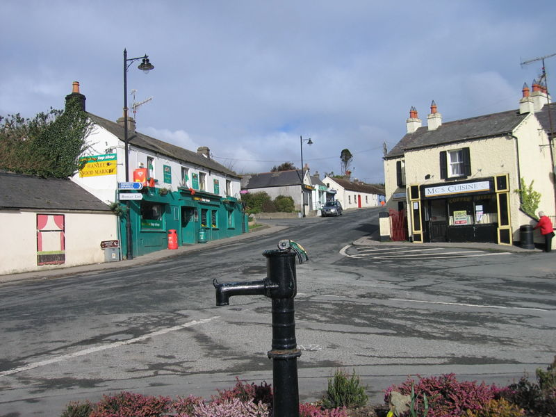 Kilcole, County Wicklow - old main street